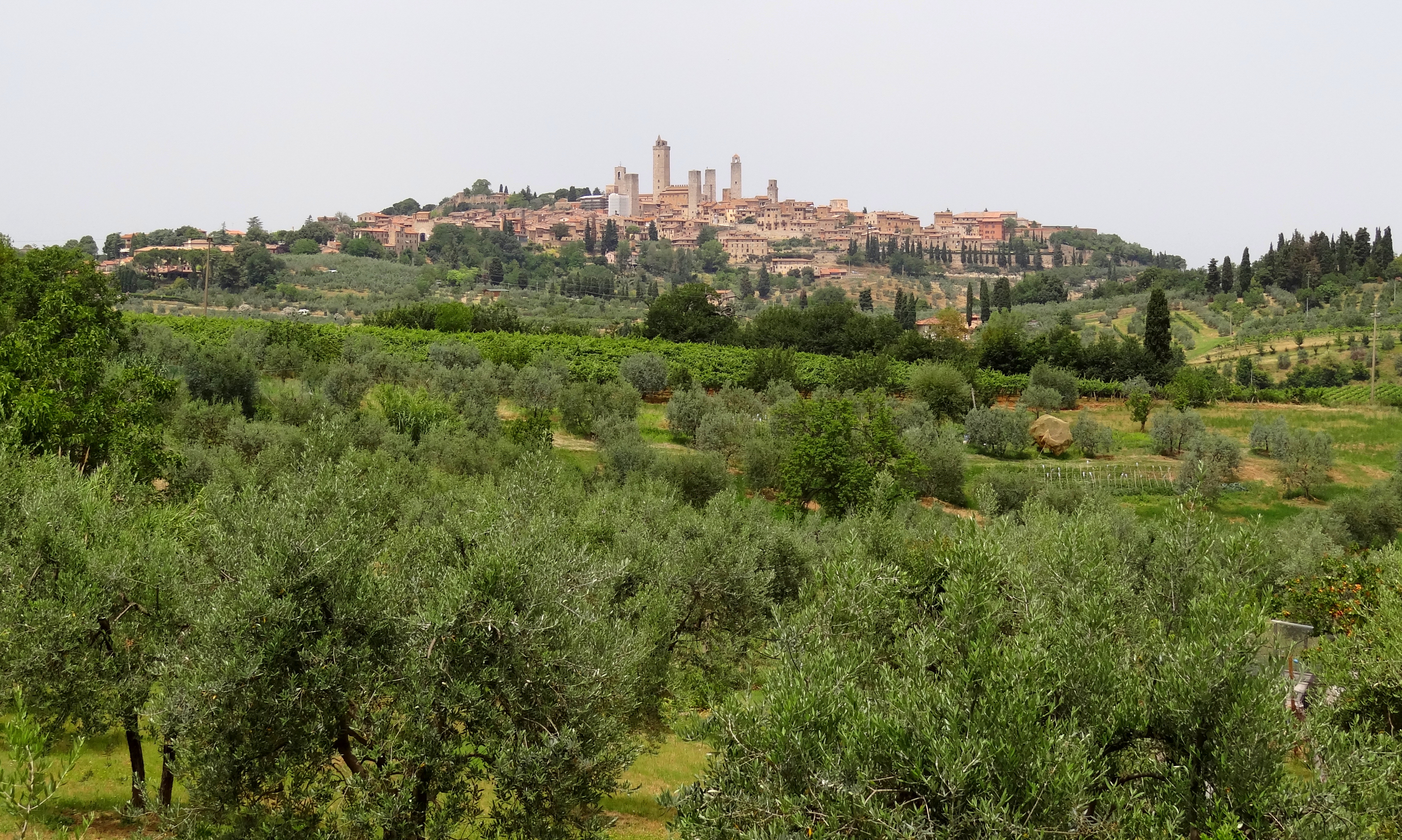 A view of San Gimignano as seen from the Via Francigena after passing through the town walking south.